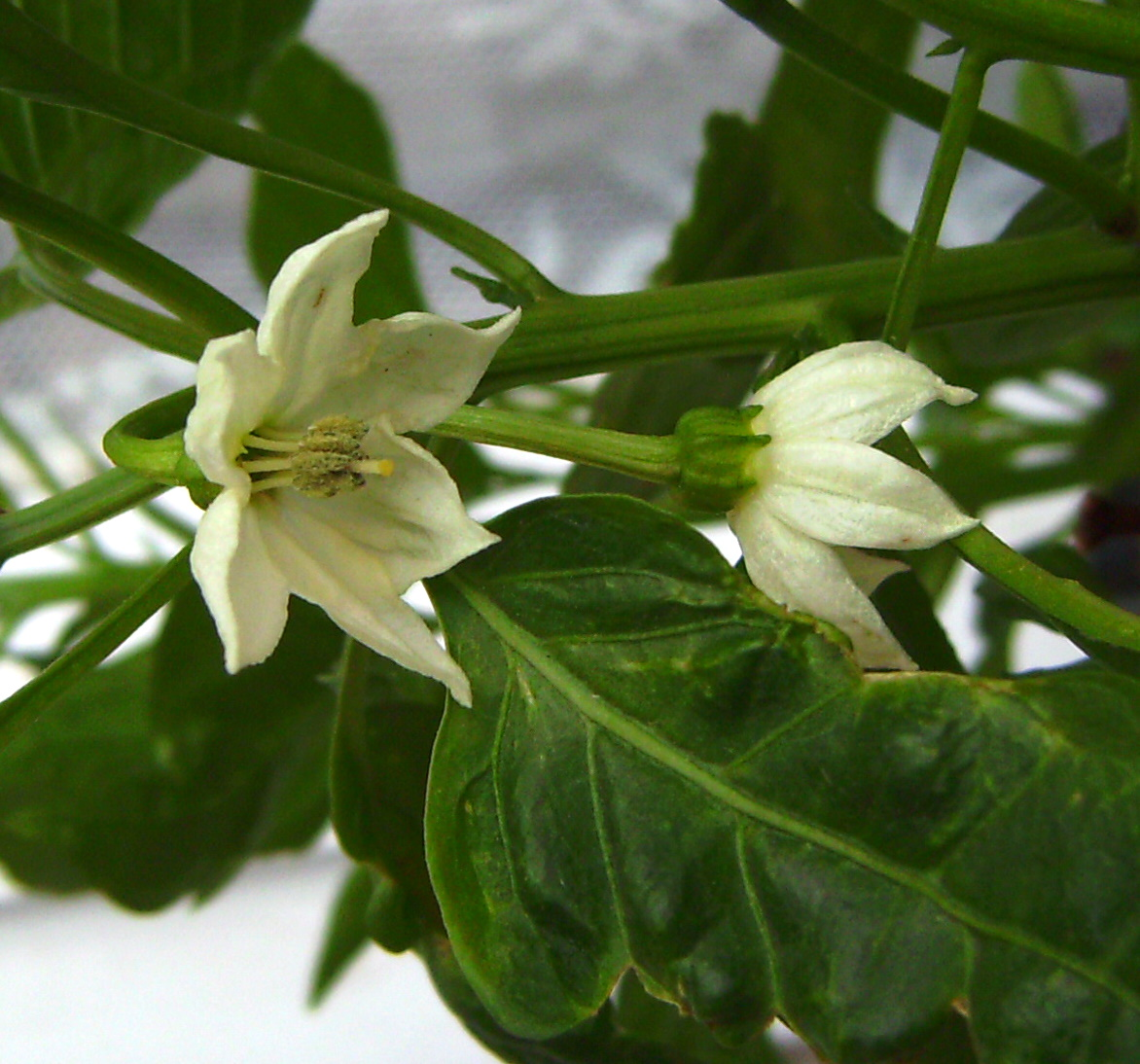 Capsicum annuum flowers cultivar Padrón, Barcelona